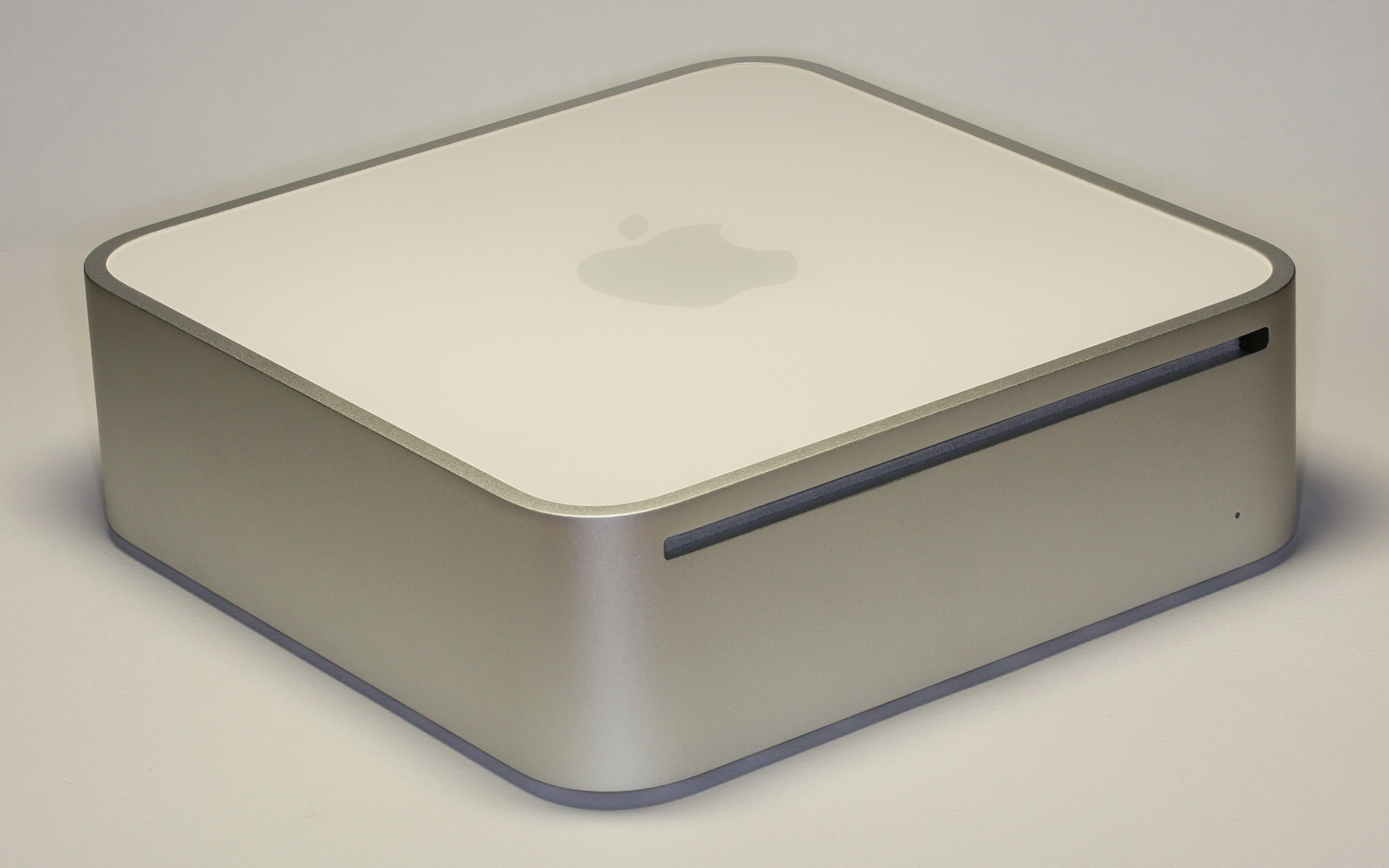 A Mac Mini of the fourth generation